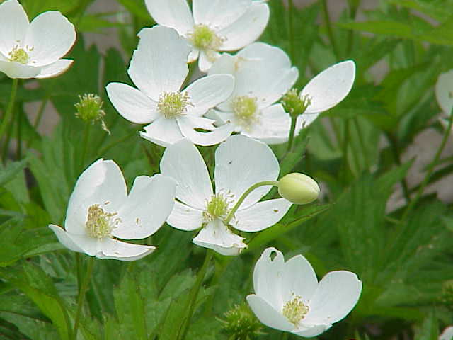 Species: Anemone canadensis Family: Ranunculaceae Image No. 3